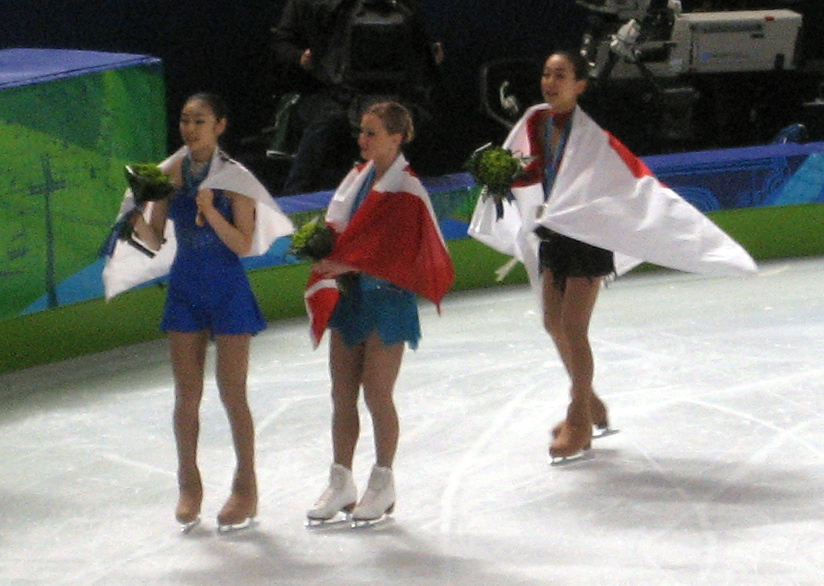 The Ladies' Figure Skating medalists leaving the ice. From left: Kim Yu-Na (gold), Joannie Rochette (bronze) and Mao Asada (silver)